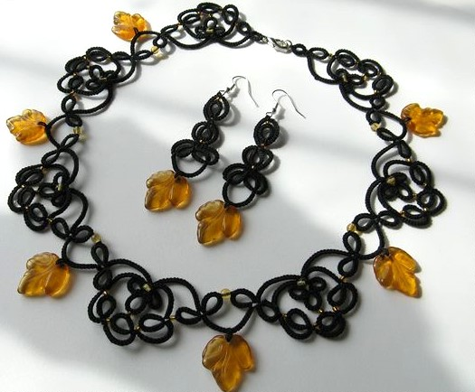 Tatting jewellery, necklace